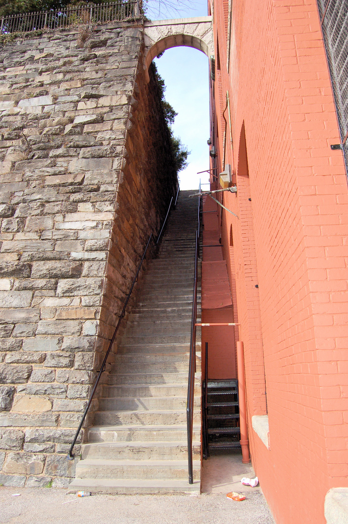 The "Exorcist Stairs" between Prospect Street and Canal Road at the point near the Key Bridge where Canal Road becomes M St. NW in Georgetown, Washington, D.C. Previously known as the "Hitchcock Stairs" and other names.